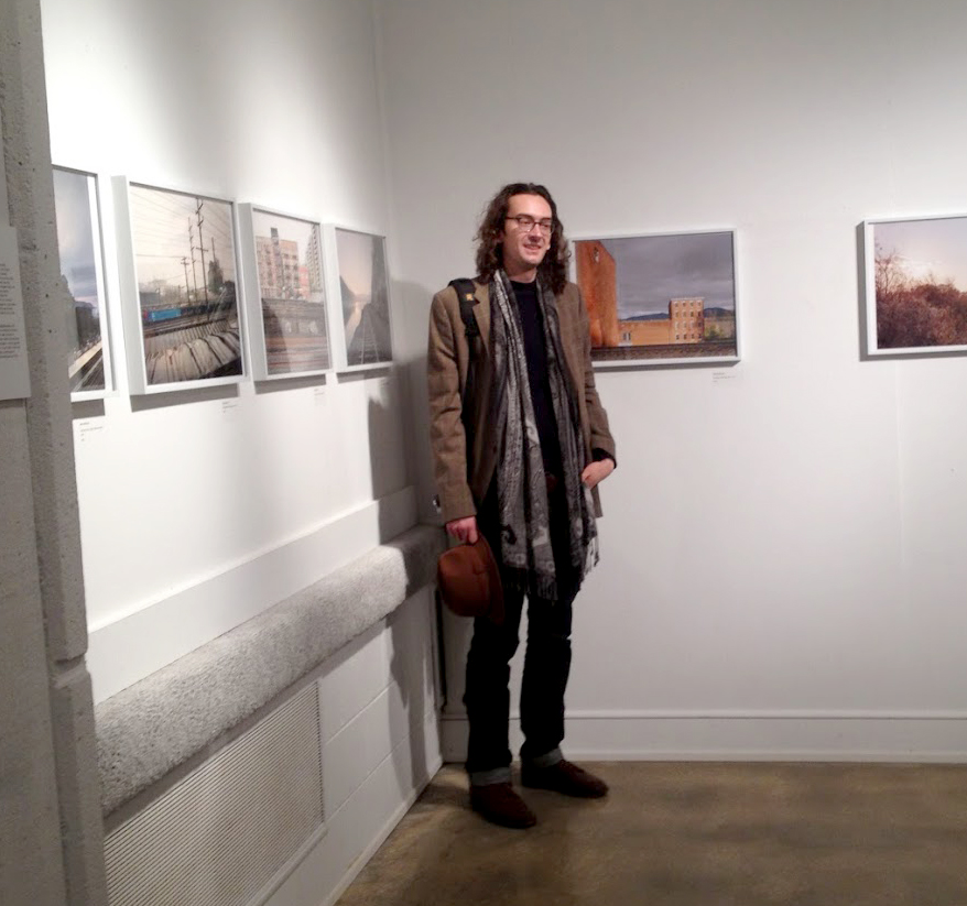 Photographer John Sanderson with his artwork on display at the exhibition ​"All Aboard! Railroads & The Historic Landscapes They Travel" - Monmouth Museum, Lincroft NJ